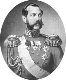 Alexander II of Russia, official portrait